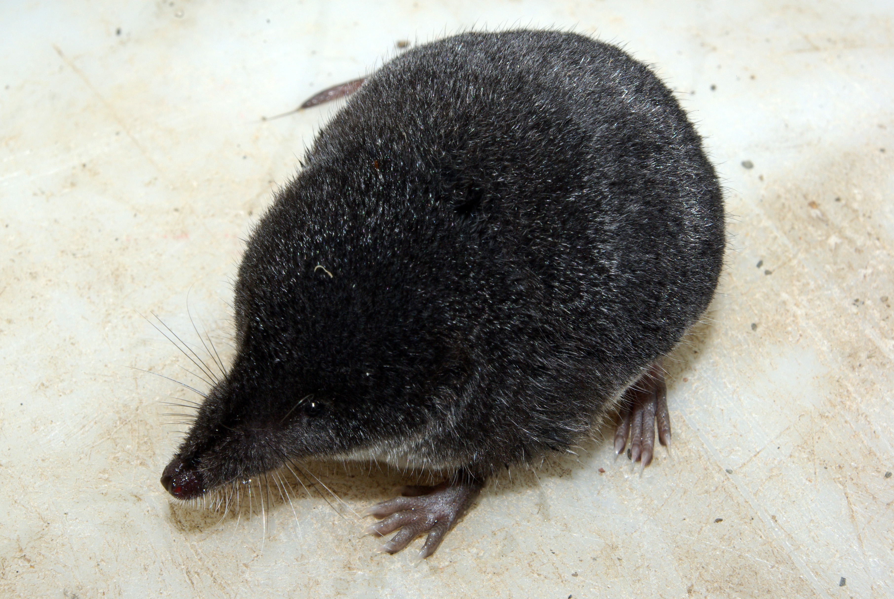 Mediterranean Water Shrew (Neomys anomalus) near Riaño, León (Spain)